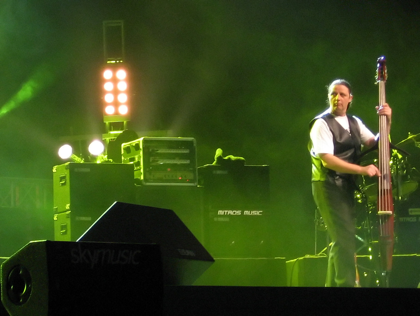 Bodan Arsovski from "Leb i Sol". (Band's 30th Anniversary Tour, concert in Beograd)